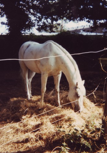 Non Stop, gelding Connemara pony, Côtes-d'Armor, Bretagne, France